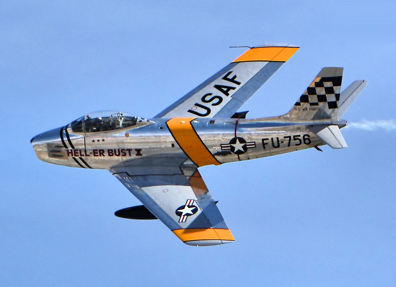 F86F Sabre - Chino Airshow 2014